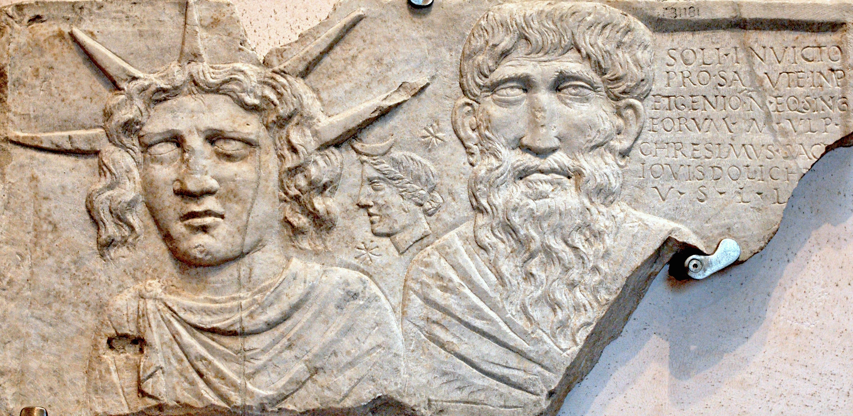 Dedication slab representing the Sun god crowned by solar rays, the Moon goddess bearing a crescent on her hair, and an old man, perhaps Jupiter Dolichenus. From the area of the barracks of the Equites Singulares, via Tasso, Rome.